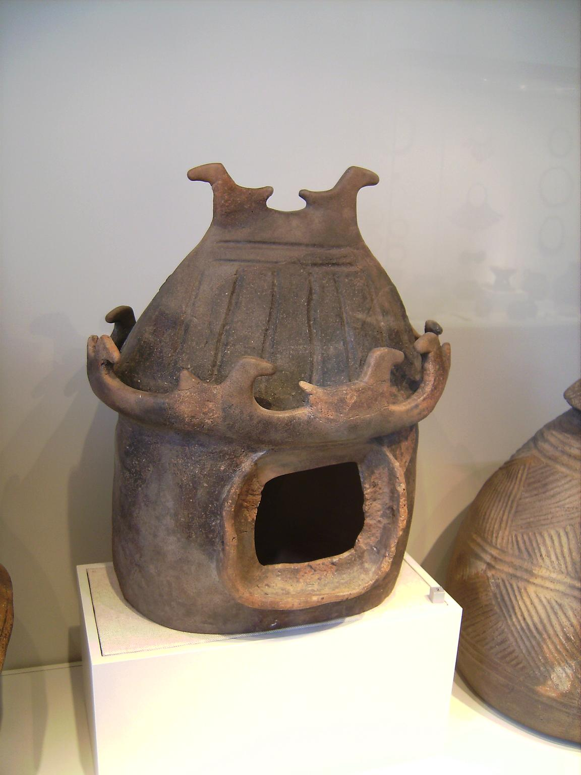 ceramic houseurn from Sachsen-Anhalt, 7.-6. century BC